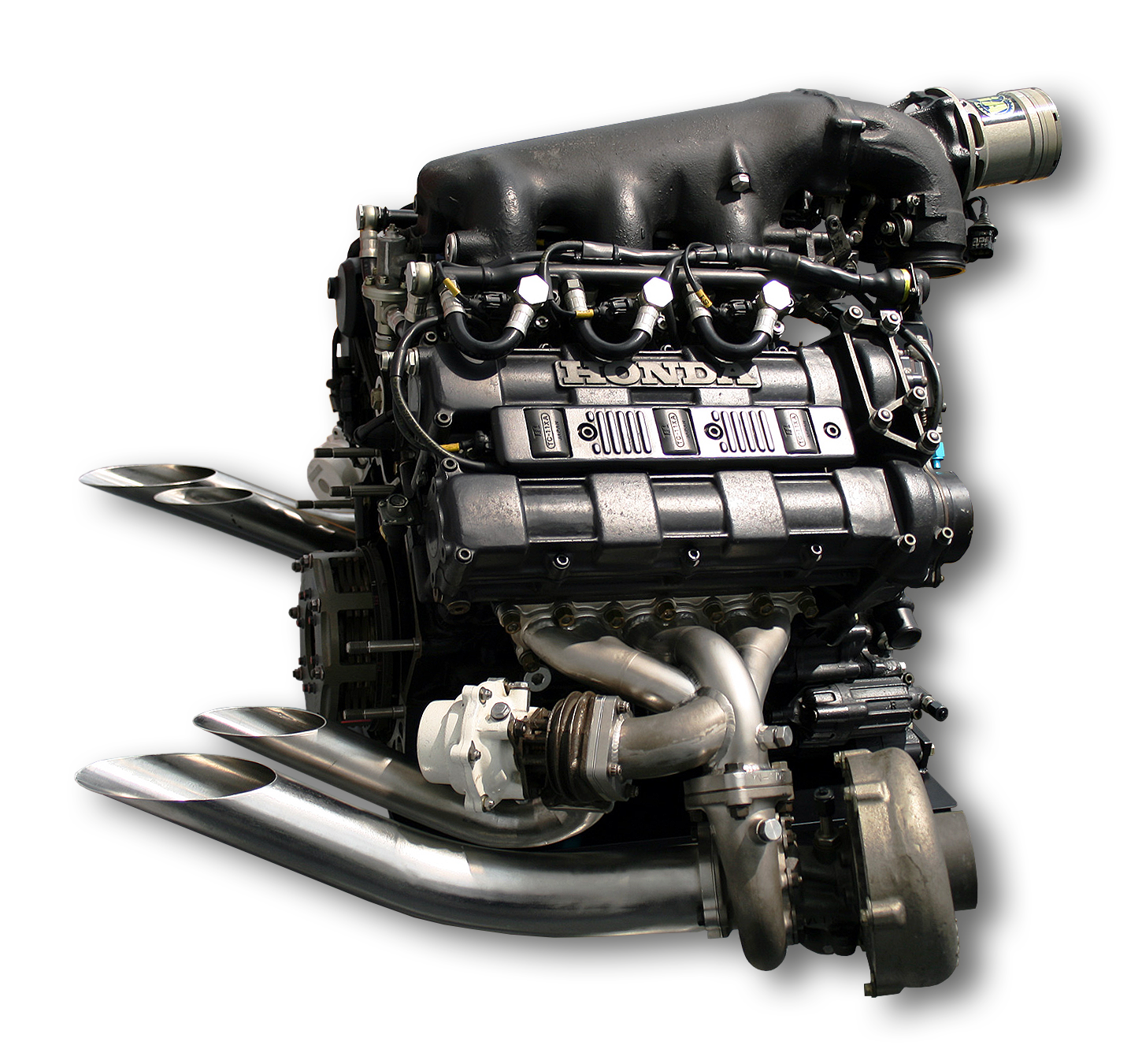 Honda RA168E engine (Formula One) displayed at ; Honda Collection Hall, Motegi, Tochigi, Japan